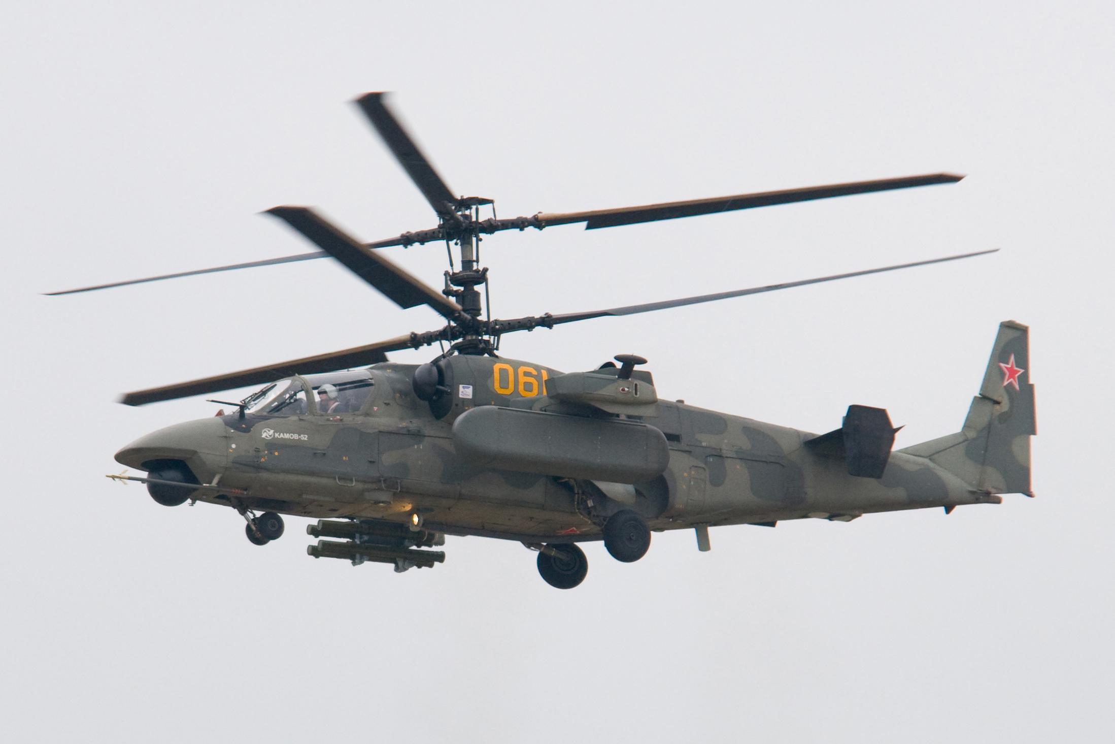 Kamov Ka-52 Alligator (NATO reporting name: 'Hokum B')